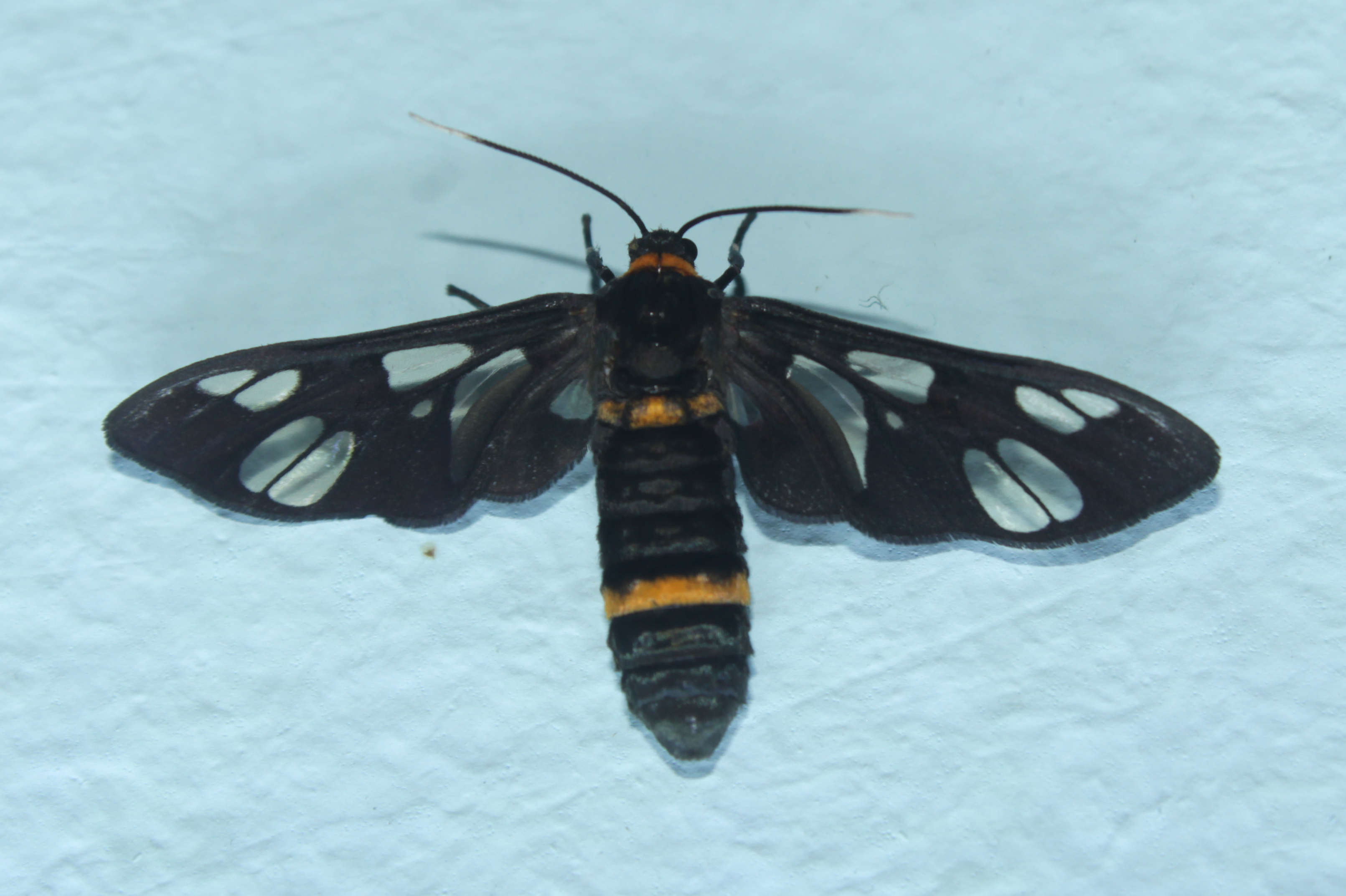 A Syntomoides imaon moth. Photographed near Kanjirappally.